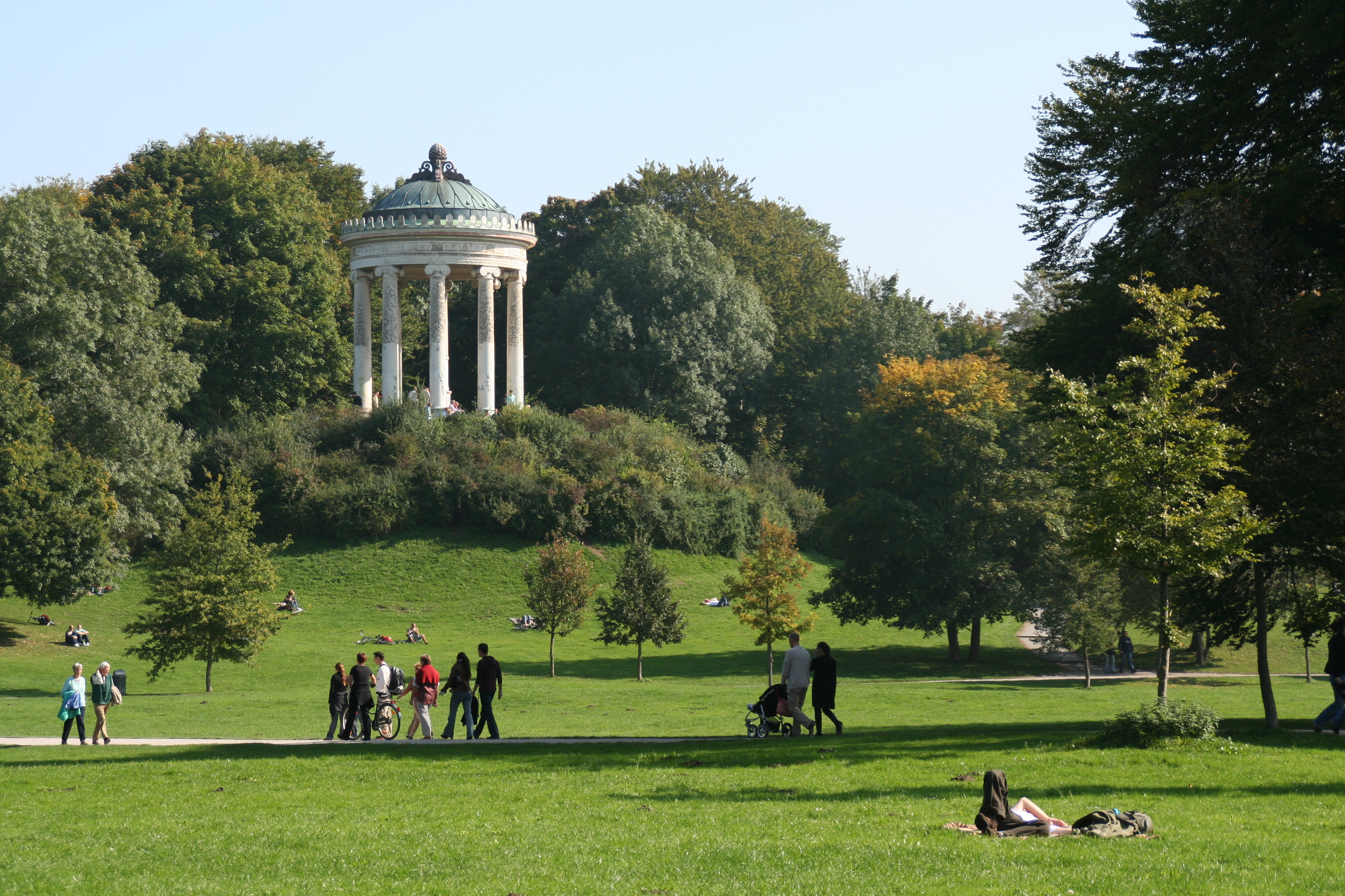 Monopteros, Munich, Englischer Garten, Munich, Germany